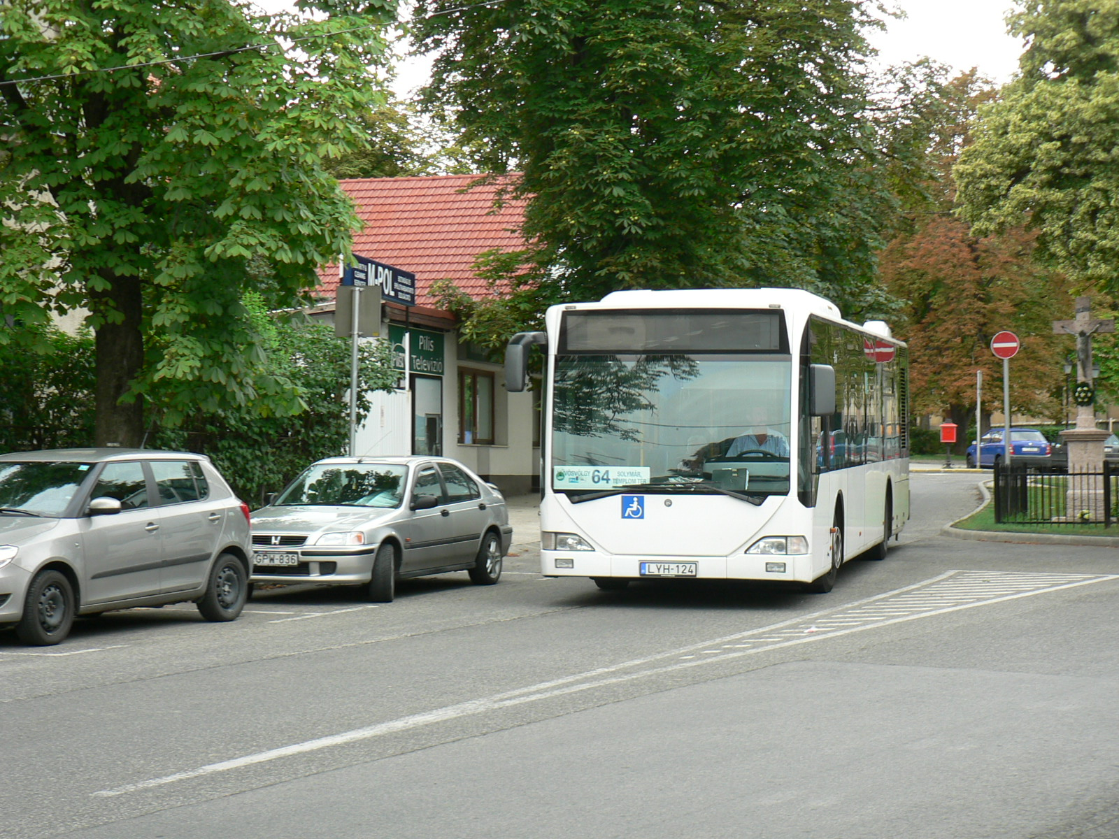 64-es busz Solymár, Templom téren (LYH-124, 2012, még fehér festéssel)